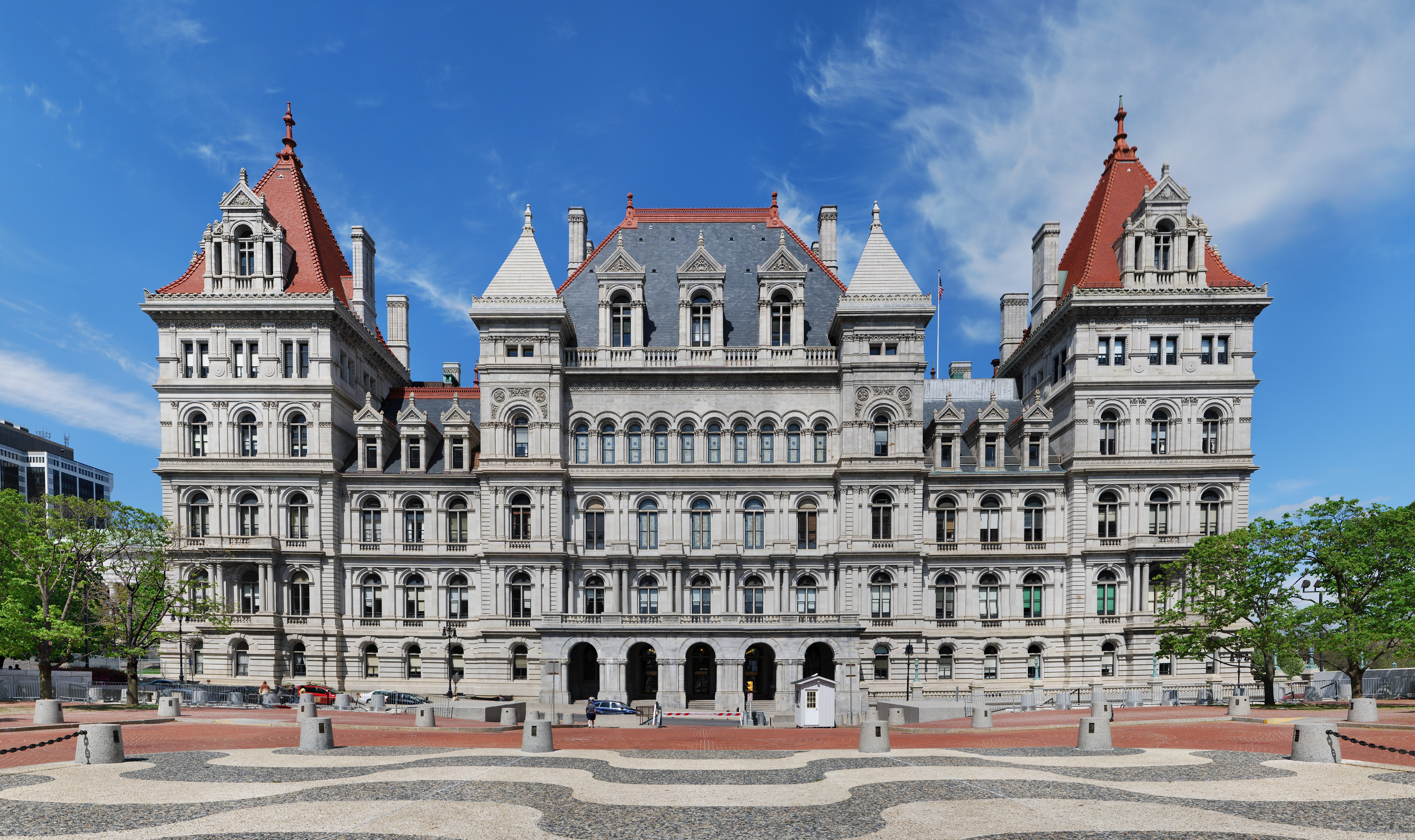 New York State Capitol viewed from the south, located on the north end of the Empire State Plaza in Albany, New York